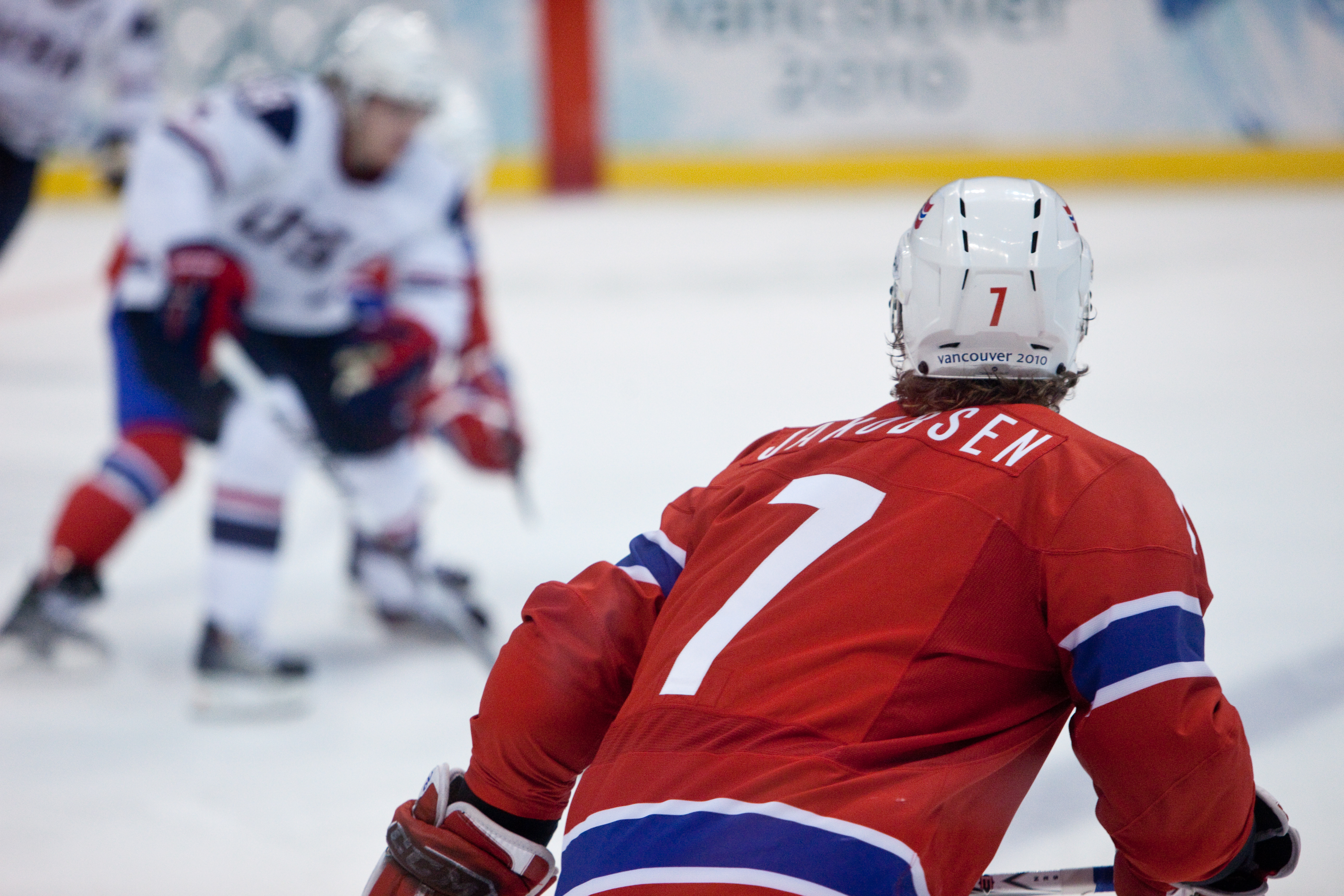 Tommy Jakobsen of Norway during the 2010 Winter Olympics